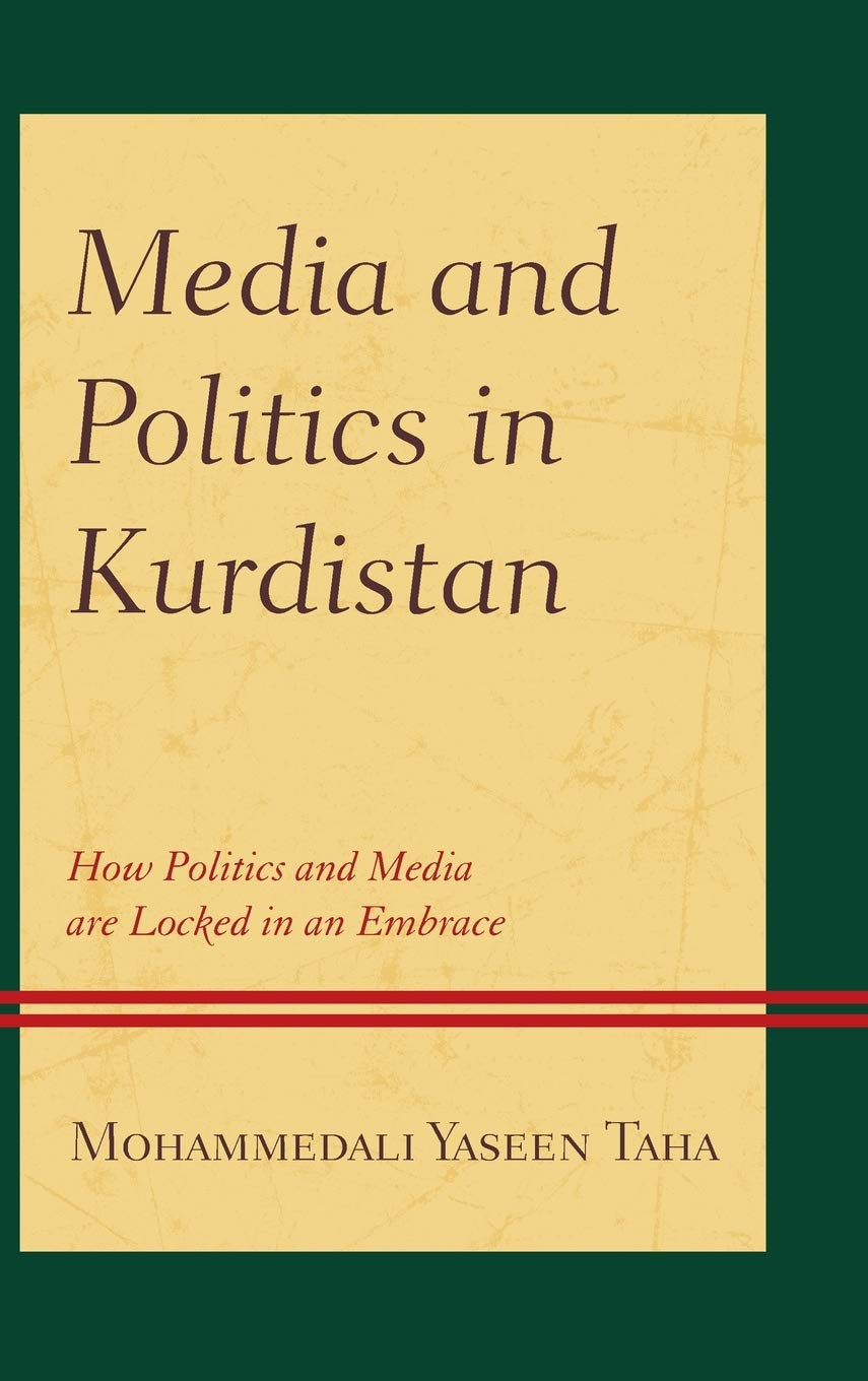 Media and Politics in Kurdistan, book cover